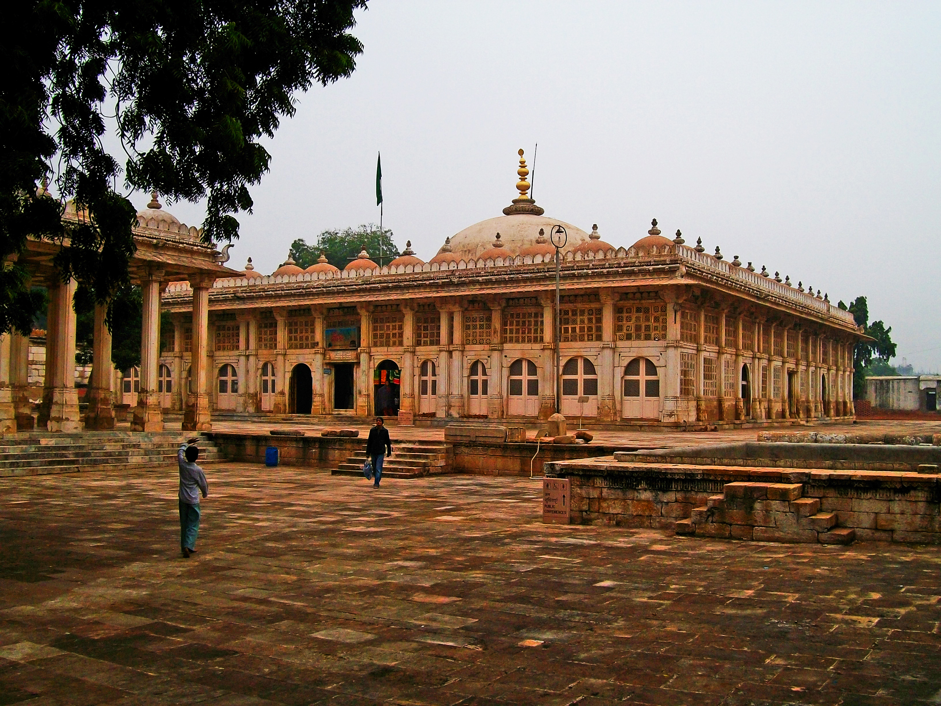 Front view of Sarkhej Roza - a mosque located in the village of Makraba, 7 km south-west of Ahmedabad in Gujarat state, India. The mosque is known as "Ahmedabad's Acropolis", due to 20th century architect Le Corbusier's famous comparison of this mosque's design to the Acropolis of Athens.